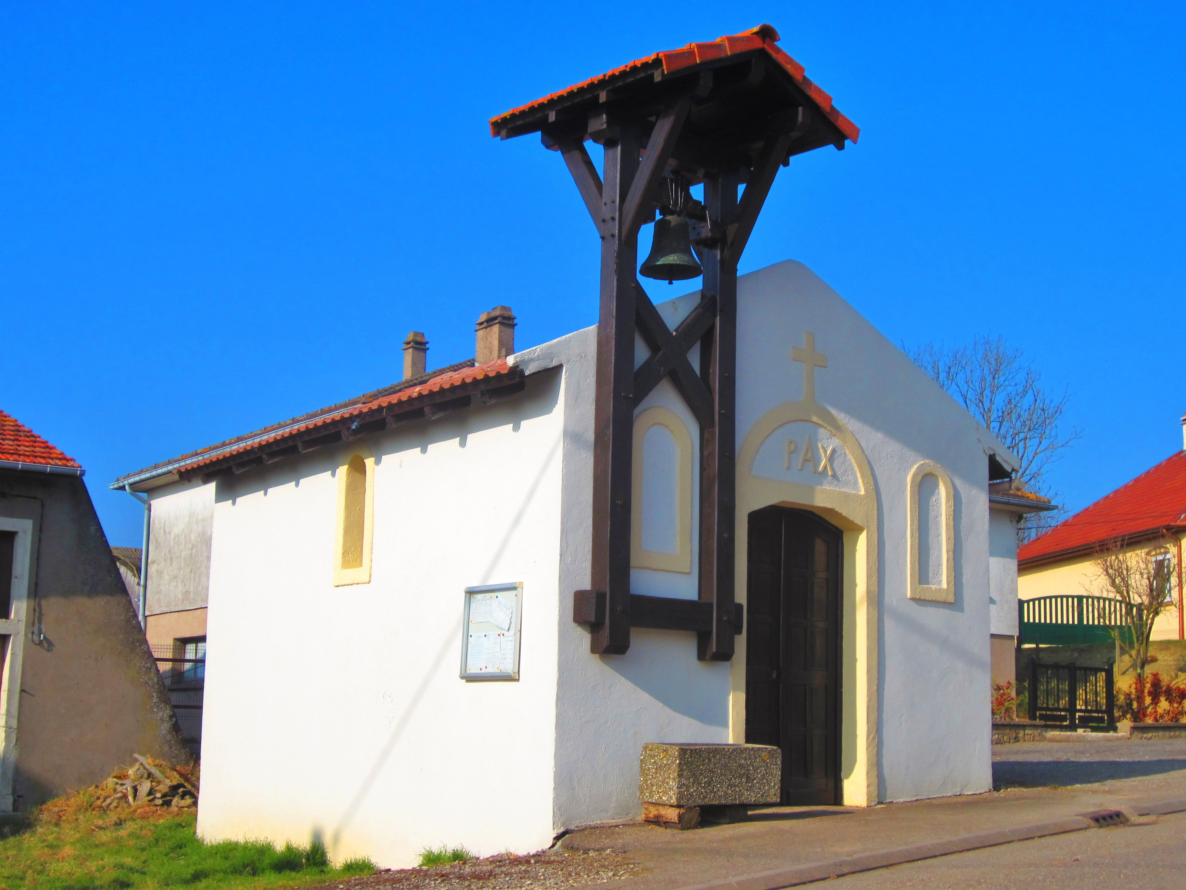 Frecourt Servigny Raville chapel